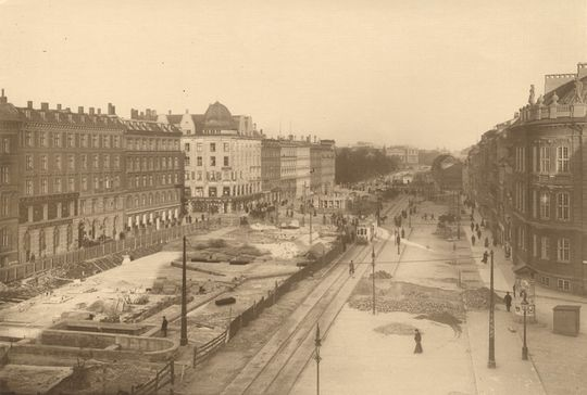 Nørre Voldgade being reconstructed after Construction of the Boulevard Line in Copenhagen, Denmark